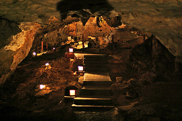 Gruta де Balankanché